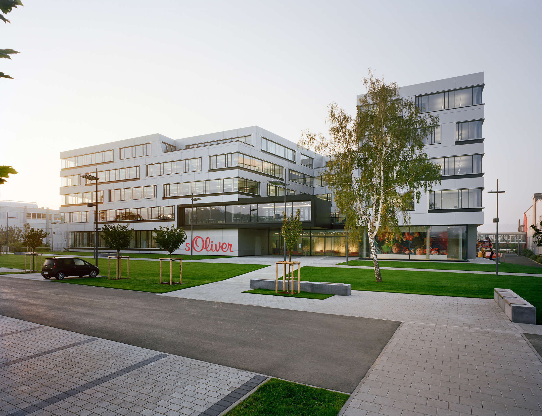 s.Oliver Headquarter Rottendorf (Germany)